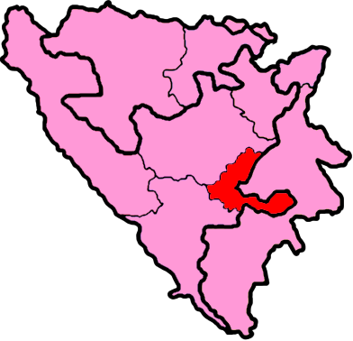 The third electoral unit of the Federation of Bosnia and Herzegovina (HoRBiH) shown within Bosnia and Herzegovina.